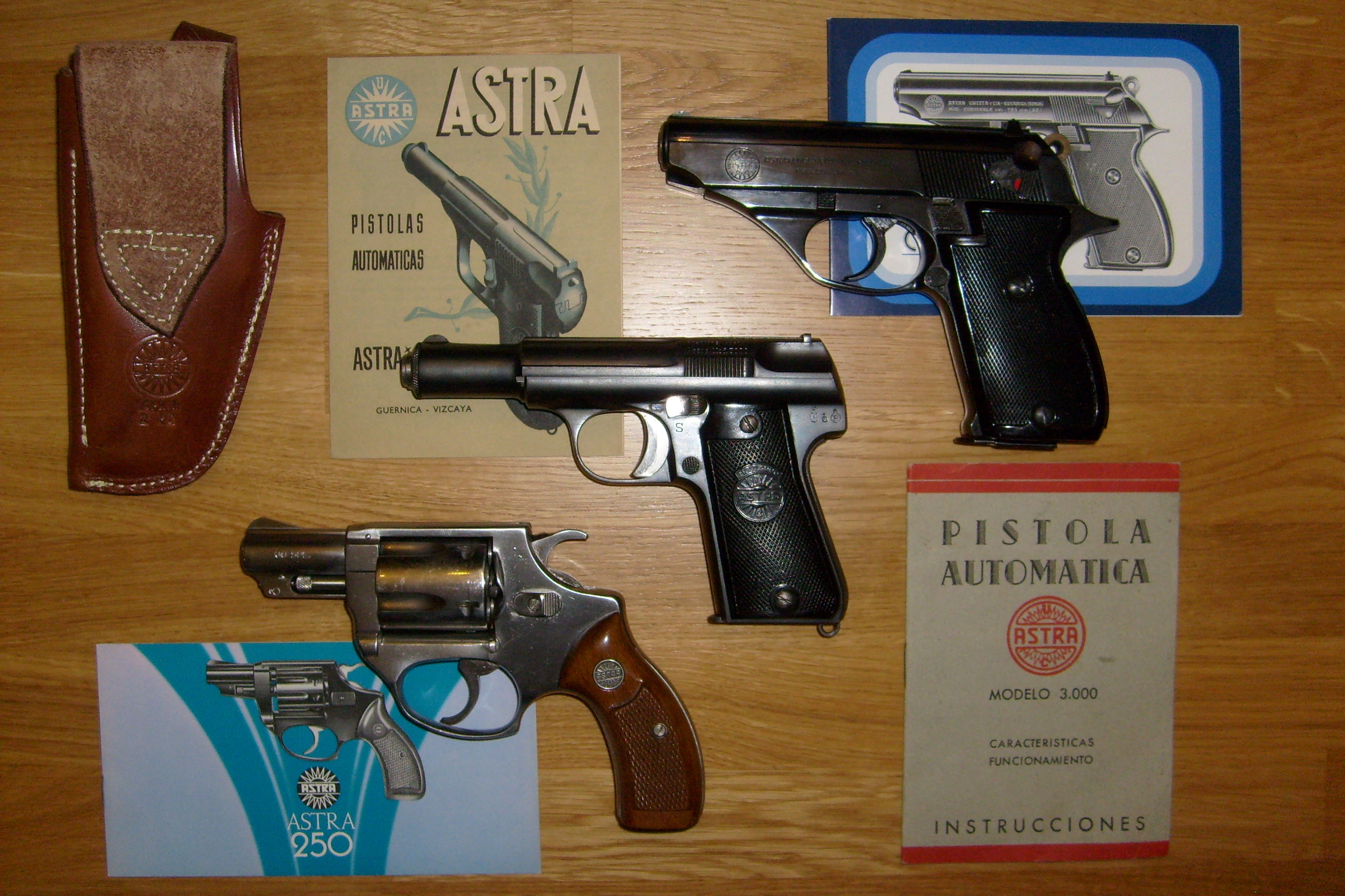 Three representative handguns from the spanish manufacturer Astra: - Astra 250 INOX revolver from 1980. - Astra 3000 pistol from 1946. - Astra Constable pistol from 1981. Also included are the original manuals, a publicitary leaflet from the 50's decade and an original Astra leather holster for compact pistol.